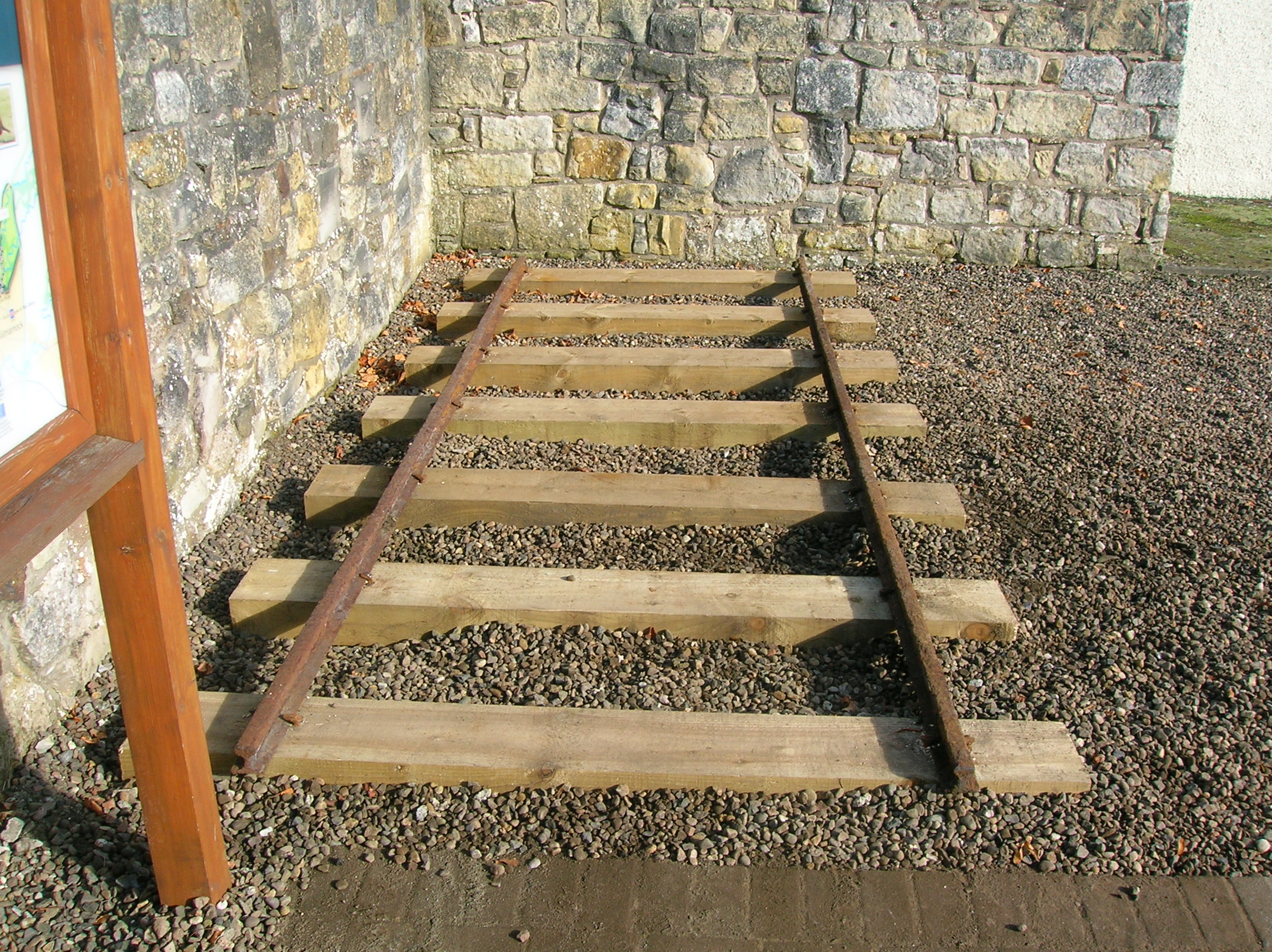 A section of Scotch Gauge railway track, Eglinton Country Park, Kilwinning, North Ayrshire, Scotland